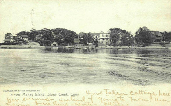 Postcard: Money Island, one of the Thimble Islands off of Stony Creek, Connecticut, a section of the town of Branford, Connecticut, 1905 copyright postmark Description; Caption on picture side of postcard reads: "R5338 Money Island, Stony Creek, Conn." Also in lower left-hand corner of the picture side: Copyright 1905 by the Rotograph Co." Store Web page states: "Pub by The Rotograph Co, New York City [...] Undivided Back, Postally Used - PM Stony Creek, Conn Aug 20, 1906" Message: "Have taken cottage here for summer instead of going to farm. Am having fine time — write — [signature illegible]" ("Philo" perhaps??)